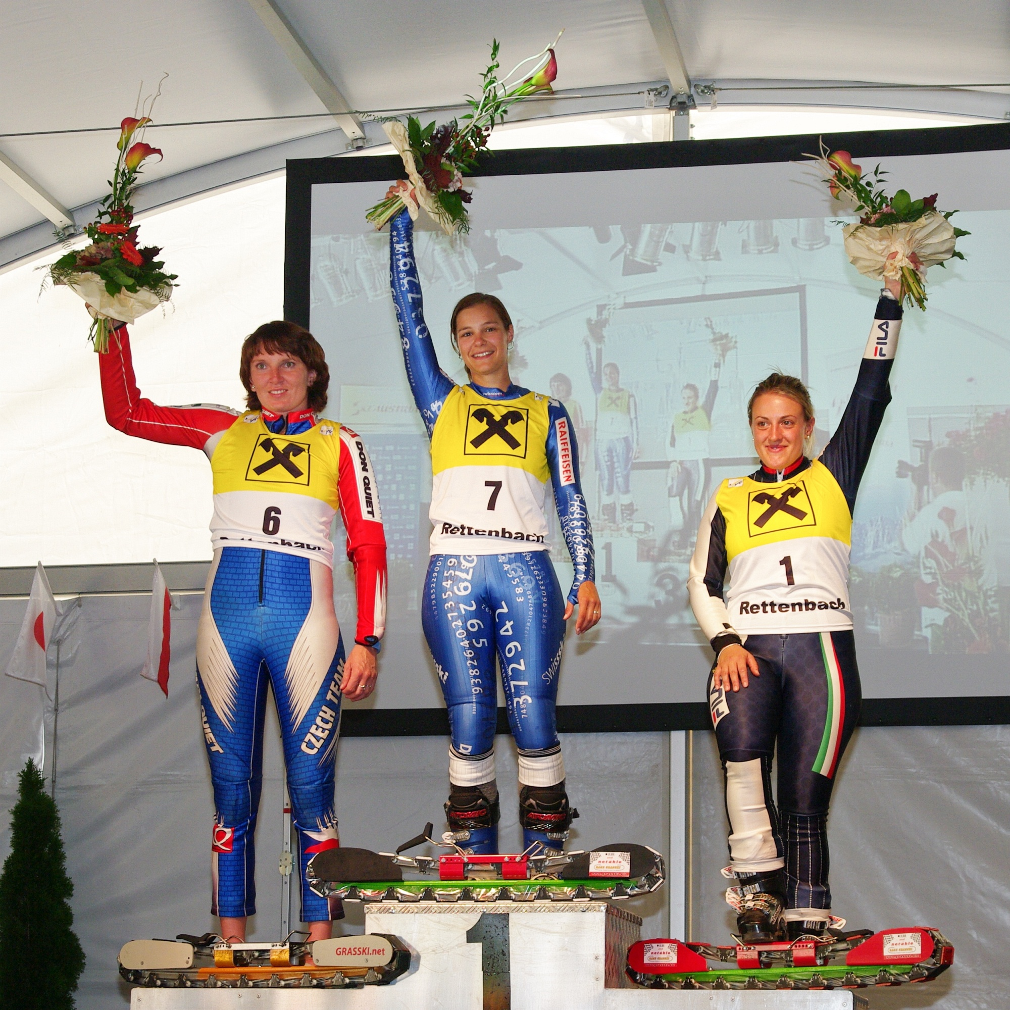 Grass Skiing World Championships 2009 in Rettenbach, Austria. Women's Giant Slalom, Flower Ceremony: 1st Place: Anna-Lena Büdenbender (GER), 2nd Place: Zuzana Gardavská (CZE), 3rd Place: Antonella Manzoni (ITA)